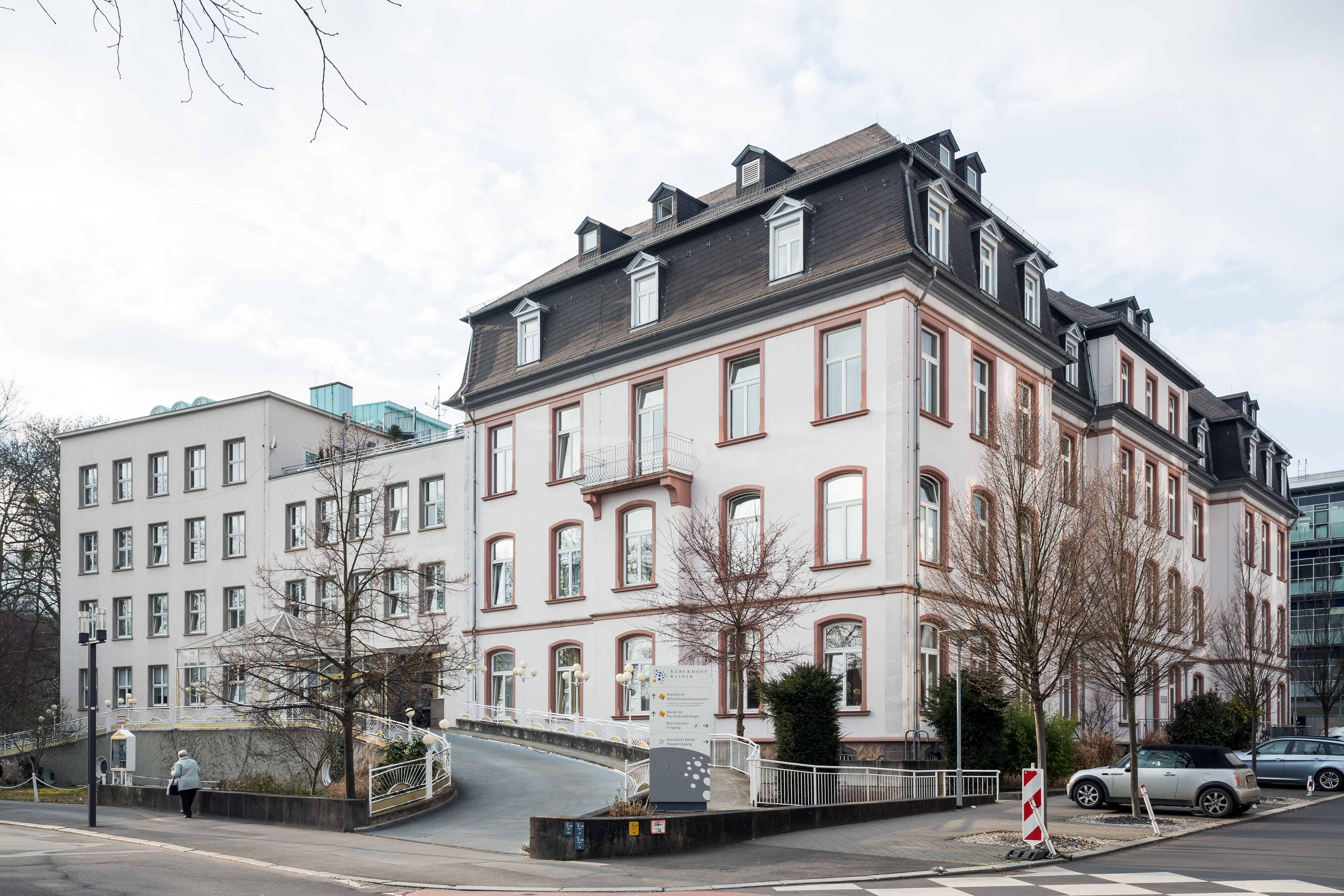 Bad Nauheim: Ludwigstraße (Louis Street) 41 as seen from the southeast